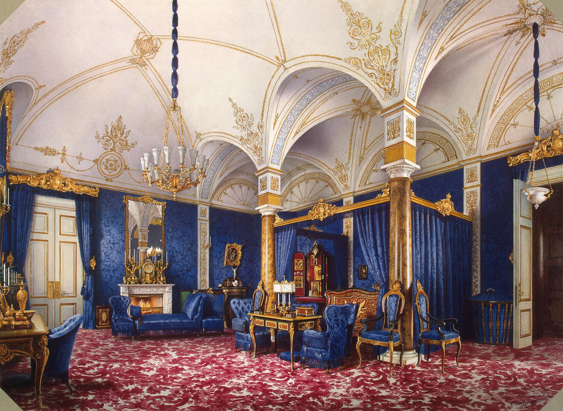 Luigi Premazzi. Interiors of the Winter Palace. The Bedroom of Empress Maria Alexandrovna, 1859.